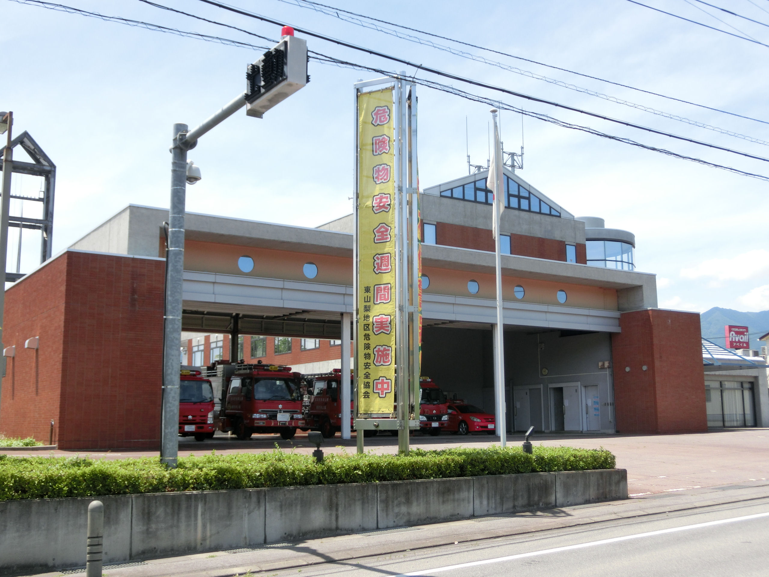 East Yamanashi Fire Department